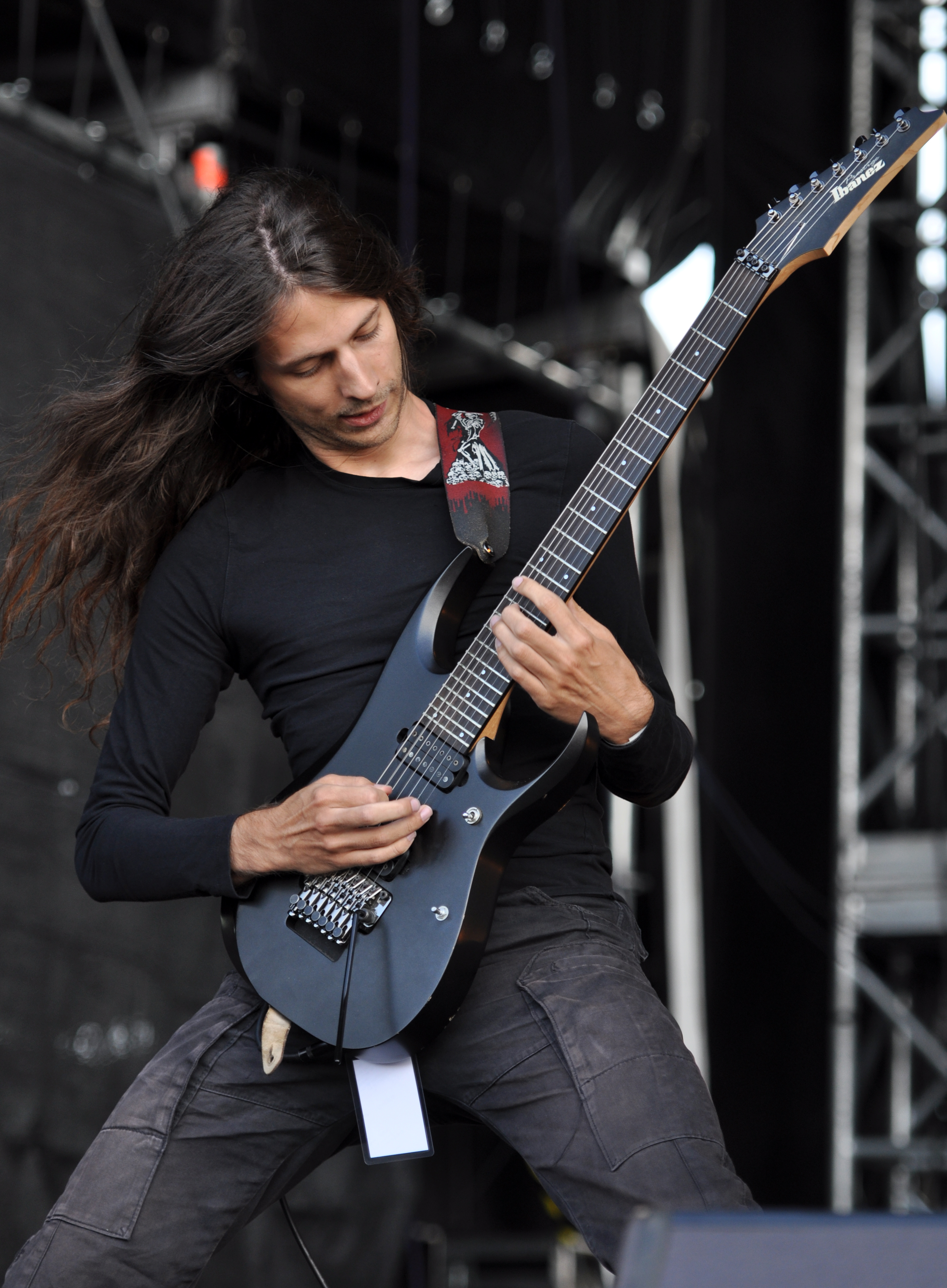 Obscura at Party.San Metal Open Air 2013